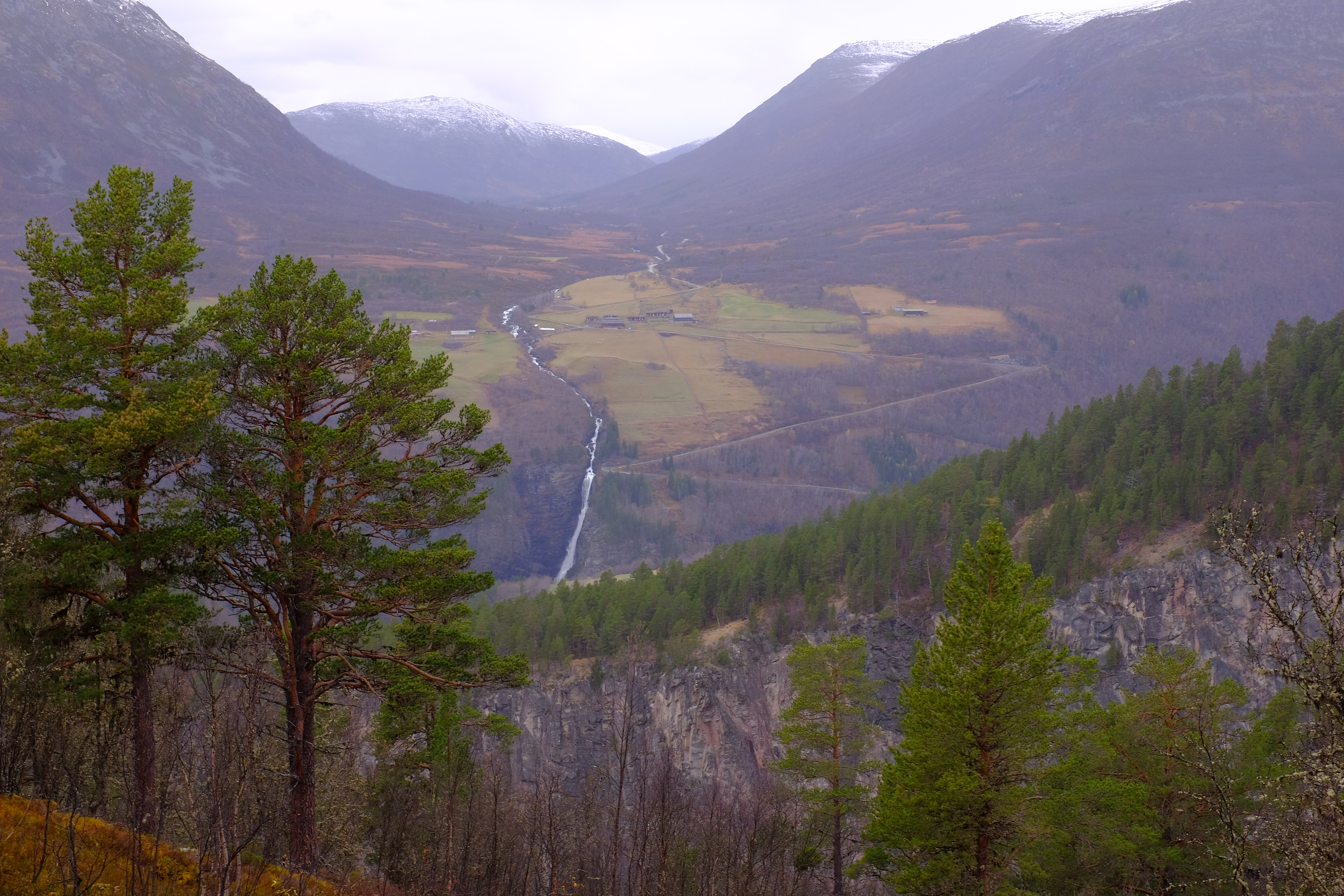 View from Sagbakkan towards Fjellgardan mountain farms, Sunndal, Møre og Romsdal, Norway.